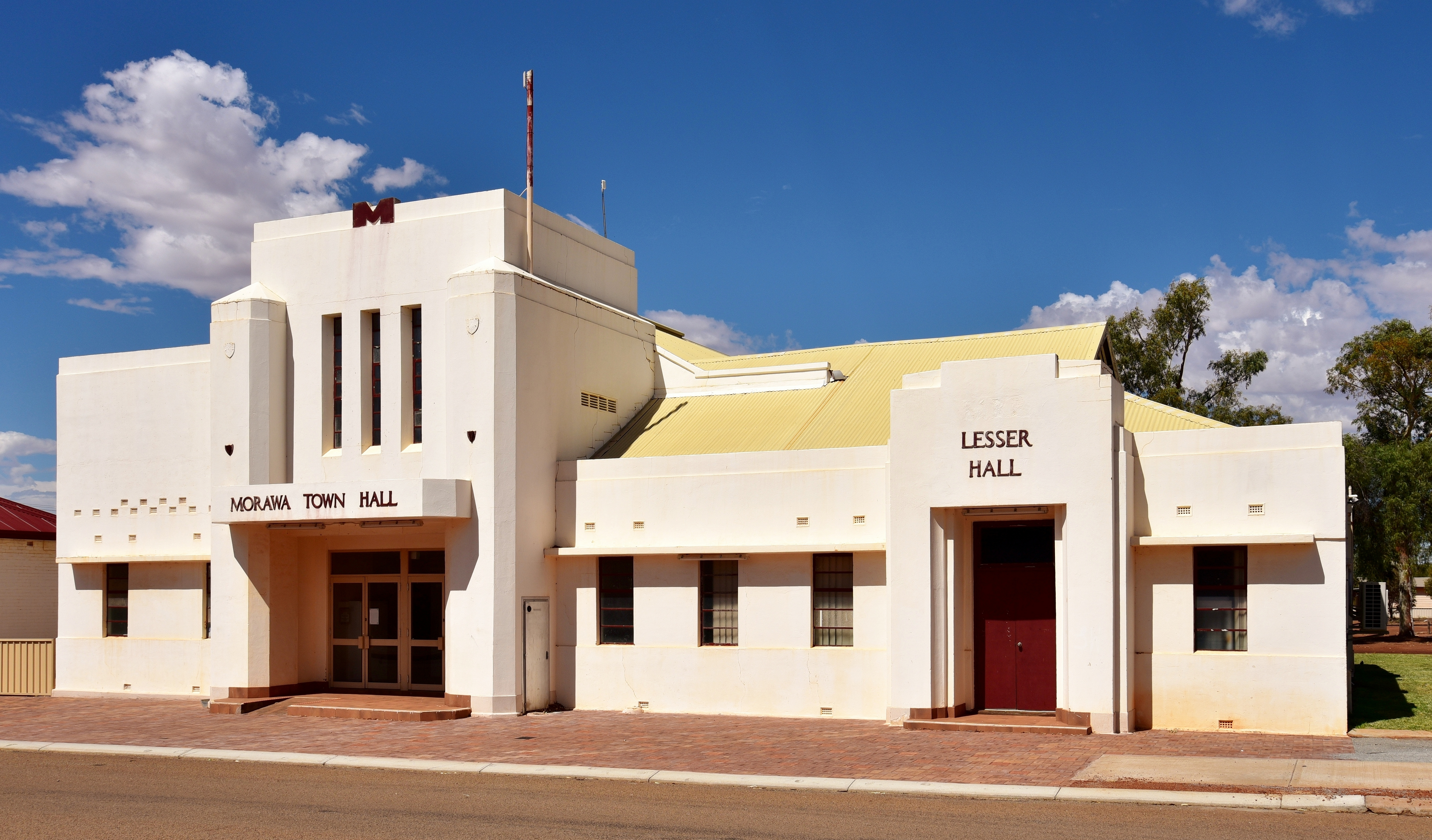 View of the Morawa Town Hall, Prater Street, Morawa, Western Australia